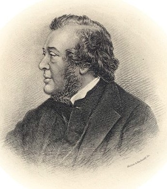 Norman MacLeod (1812-1872), Scottish clergyman, author and editor